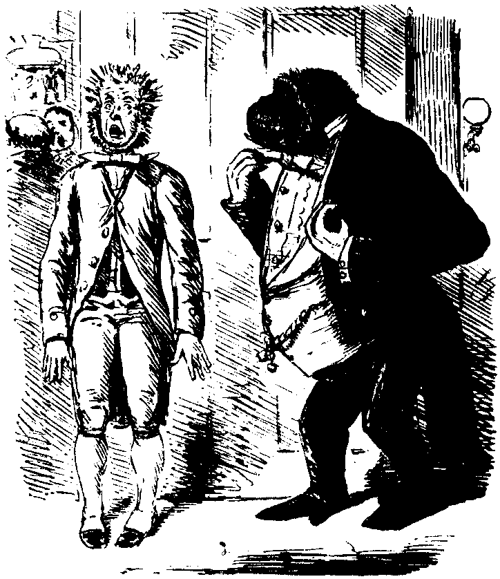 Caricature of Charles Darwins theory of evolution.